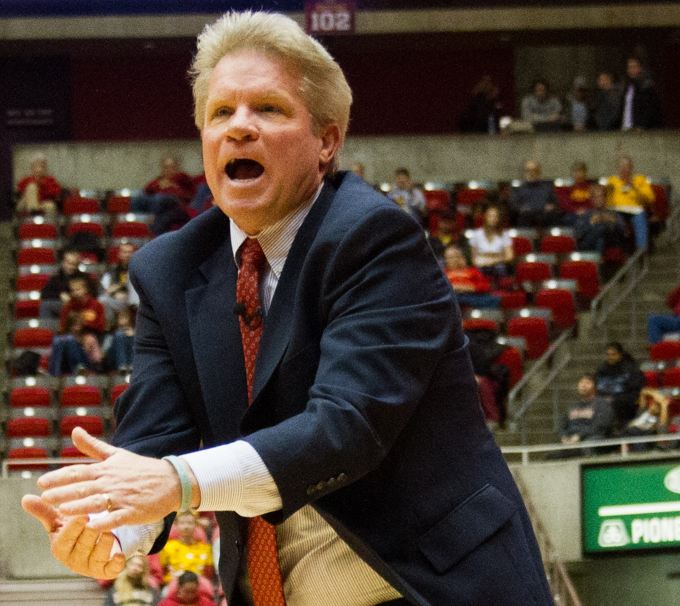 Iowa State University women's basketball coach Bill Fennelly during a game against Baylor University on January 23, 2016.